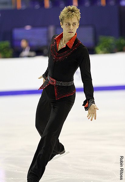 Michal Brezina - 2013 European Championships